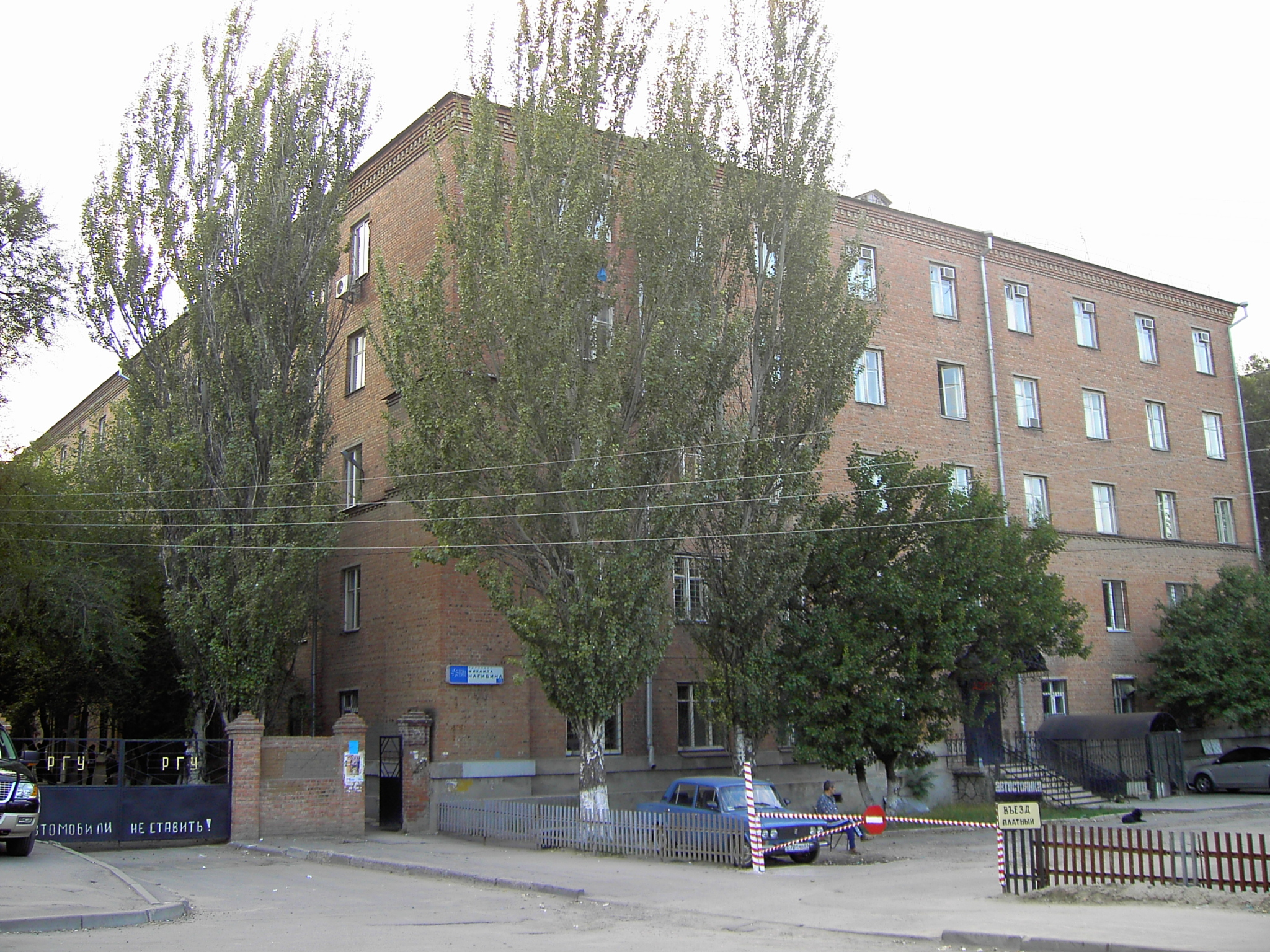 The building of the human sciences departments of Rostov State University (Rostov-on-Don)